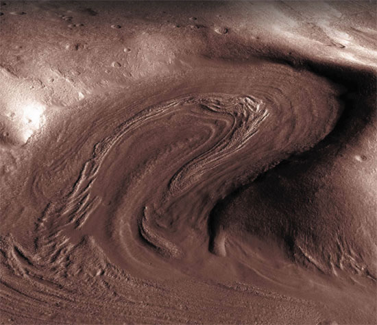 Perspective view of a 5-km-wide, glacial-like lobe deposit sloping up into a box canyon along the crustal dichotomy boundary on Mars. The up-slope geometry of these deposits implies a past thickness of ice on the order of ~920 m at this location. Cessation of glacial conditions caused lowering of the debris-covered glacier surface to the configuration seen today. See “Late Amazonian glaciation at the dichotomy boundary on Mars: Evidence for glacial thickness maxima and multiple glacial phases,” by Dickson et al. (2008)